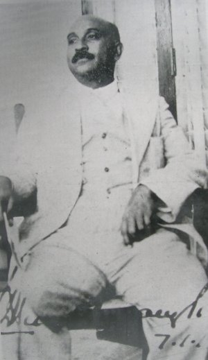 Portrait of V. I. Munuswamy Pillaiw:ta:படிமம்:V. I. Munuswamy Pillai.jpg